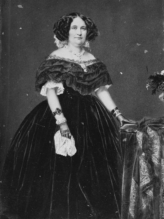 Elizabeth Ashley, widow of William Henry Ashley and John J. Crittenden.